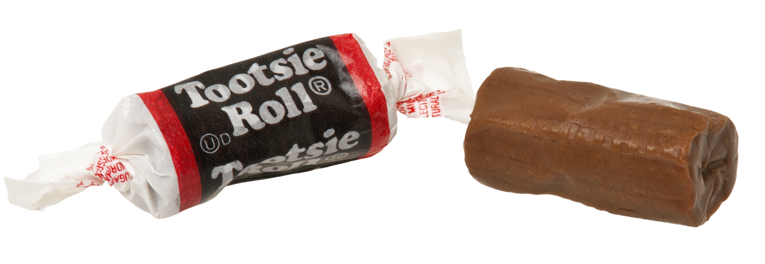 A standard-size Tootsie Roll shown wrapped and unwrapped.